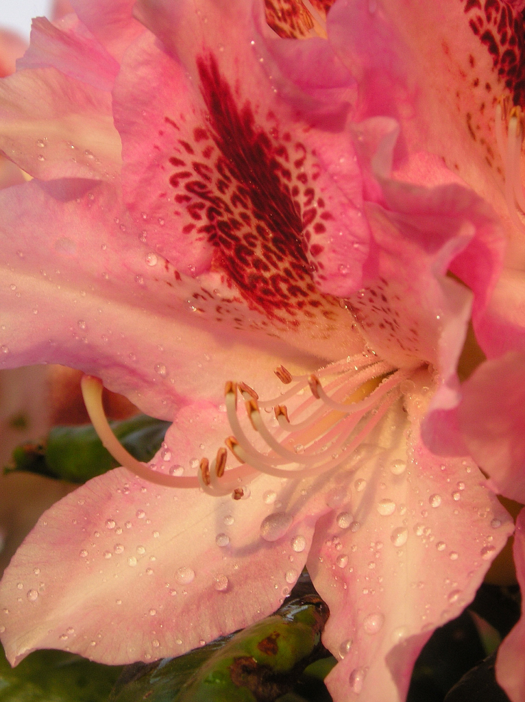 Rhododendron flower photographed at sunset.